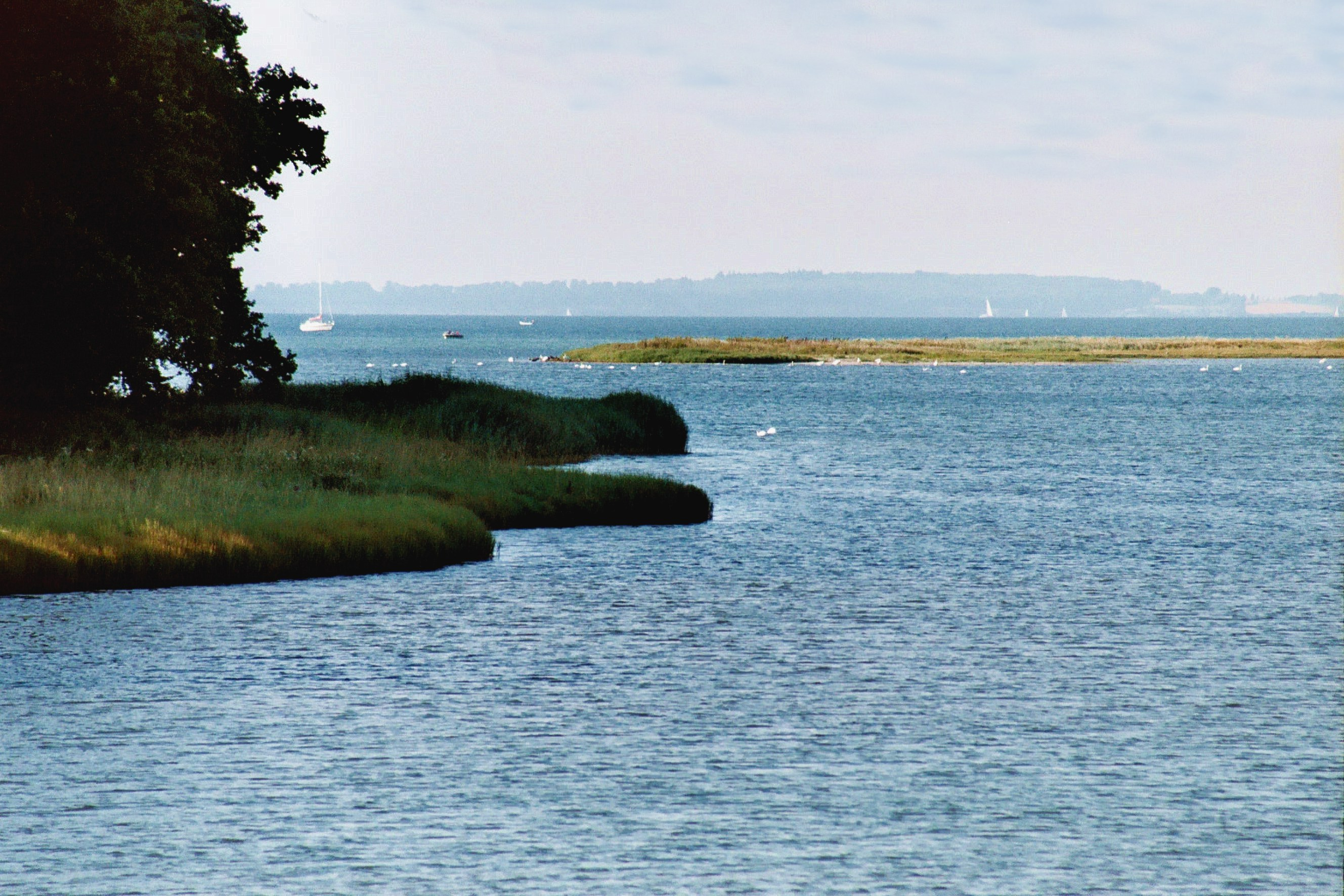 Gelting Bay, view to Denmark